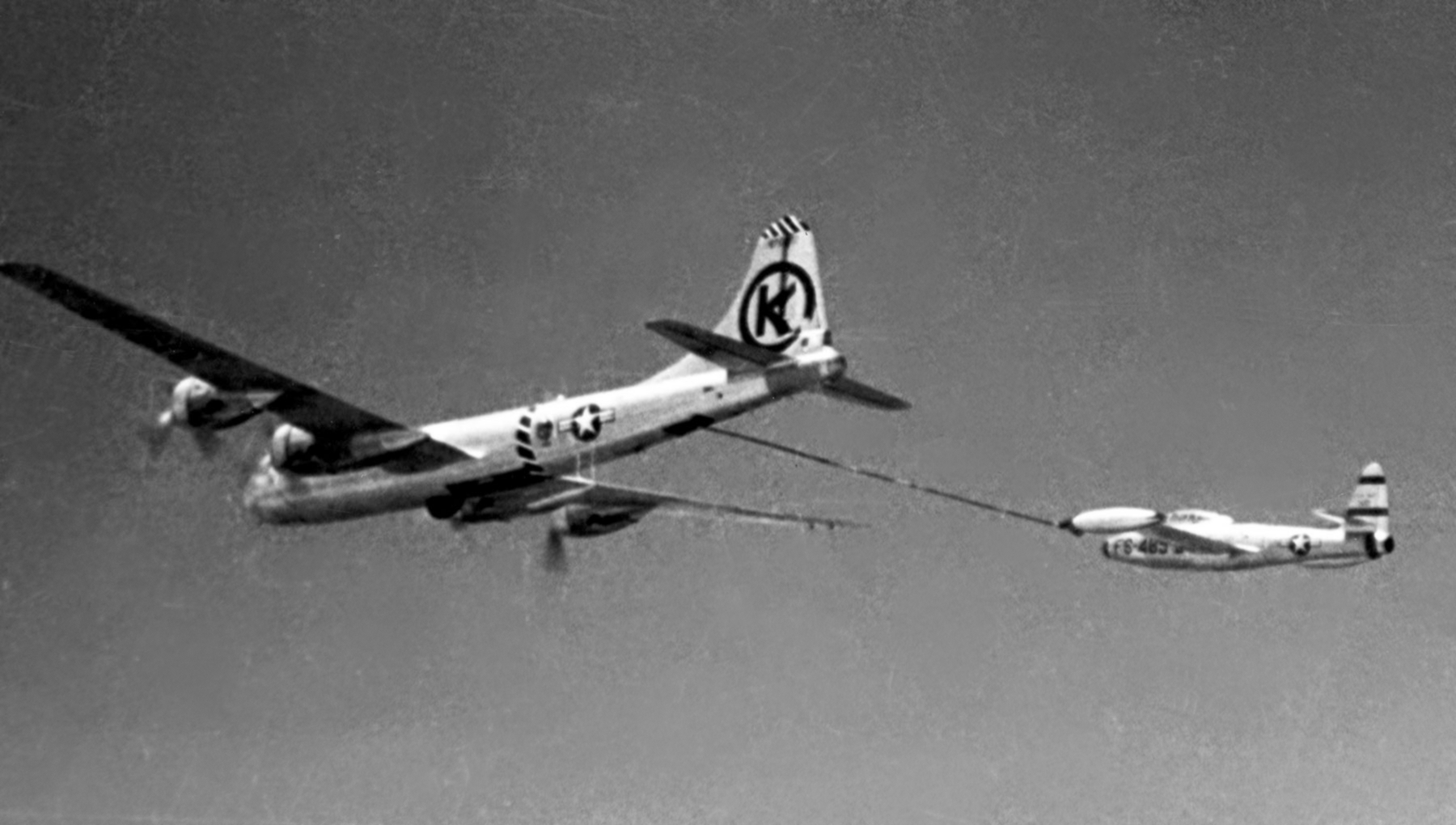 A U.S. Air Force Republic Republic F-84E-25-RE Thunderjet (s/n 51-485) from the 49th or 474th Fighter-Bomber Group refueling from a Boeing KB-29M Superfortress (from the 43rd Bombardement Wing?) over Korea. Operation "High Tide", which saw the first aerial refueled strike missions, began in May 1952 when twelve F-84Es flew non-stop from Japan to bomb targets in North Korea. In the same year, aerial refueled "Fox Peter" operations began flying F-84Gs non-stop across the Pacific. The F-84Es had refuelable outboard tanks that had to be refueled seperately with the "probe-and-drouge"-system, whereas the F-84Gs used the boom-system to refuel all tanks. The depicted F-84E 51-485 was lost when it crashed after bomb run on 12 April 1953. The pilot was killed.